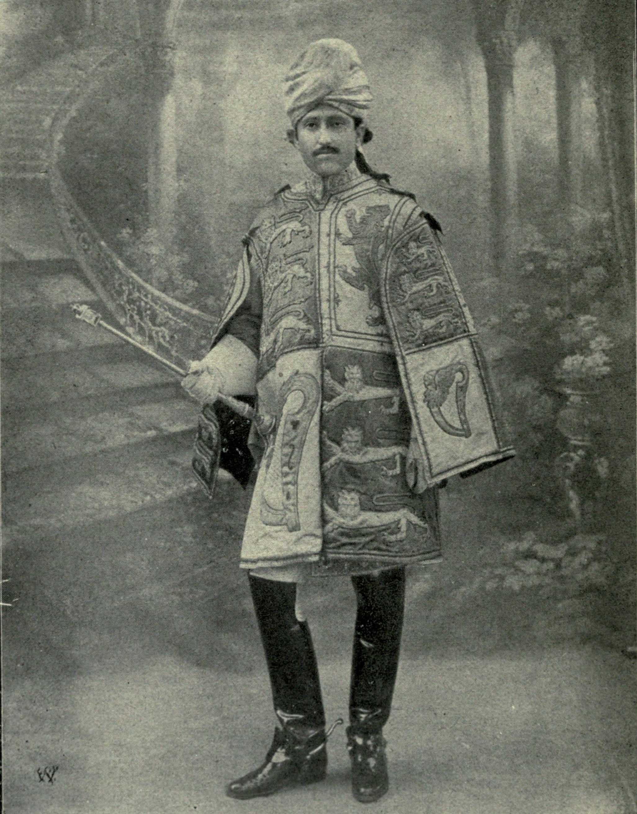 A photograph of Major General Nawab Sir Malik Umar Hayat Khan GBE KCIE LVO serving as Assistant Delhi Herald of Arms Extraordinary at the Delhi Durbar in 1911.